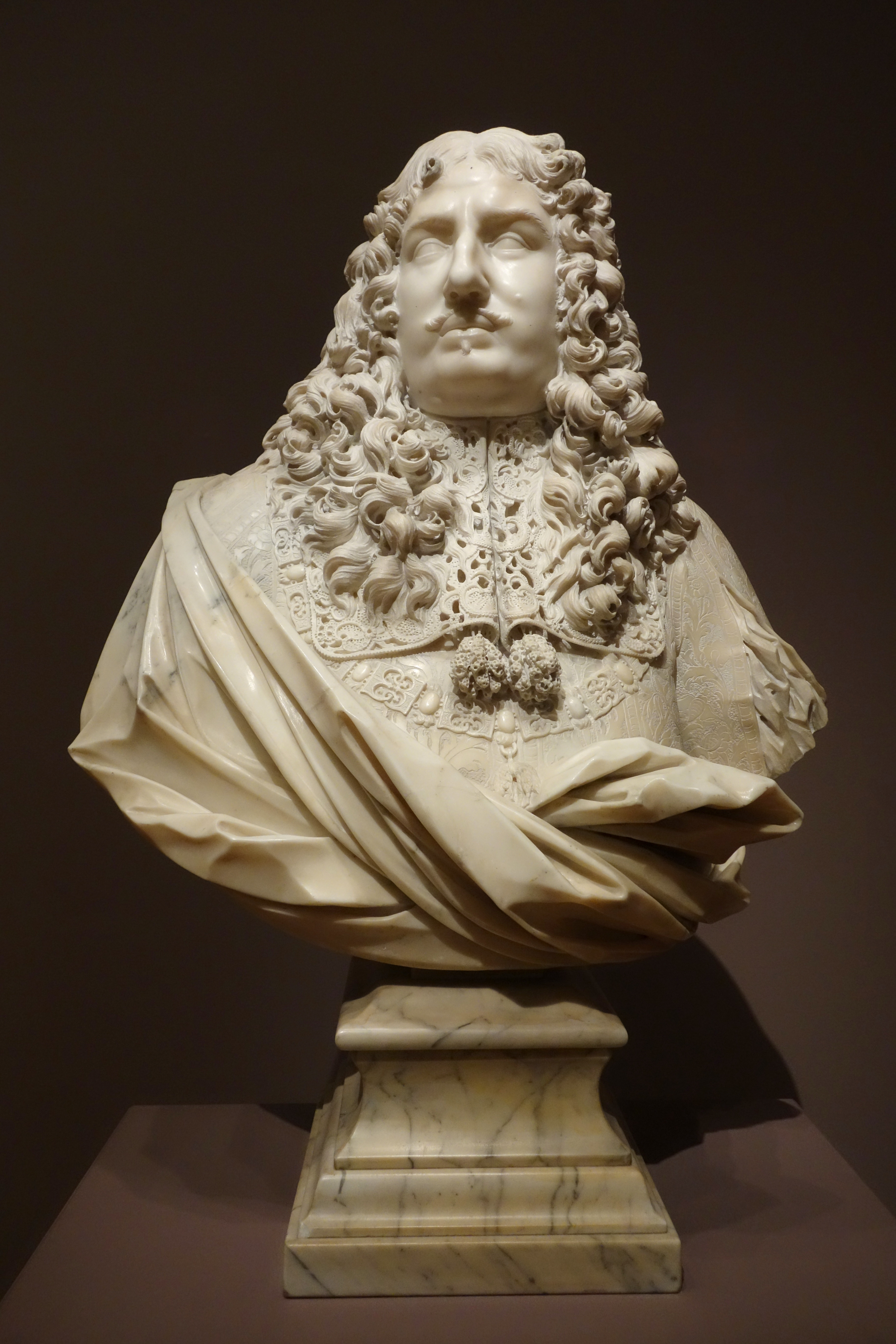 Exhibit in the California Palace of the Legion of Honor, San Francisco, California, USA. This work is old enough so that it is in the public domain.